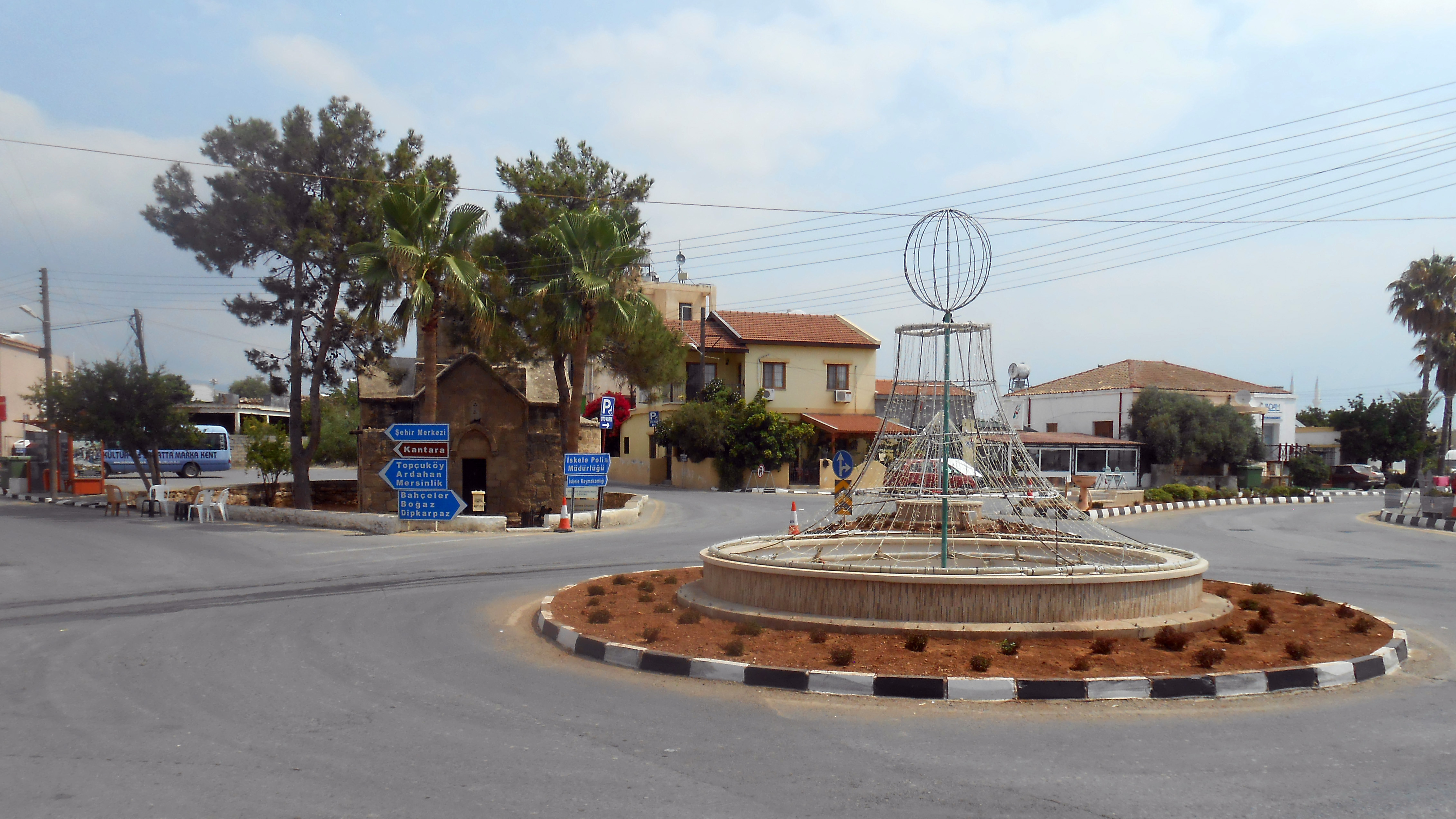 Main square of Iskele (Tricomo)